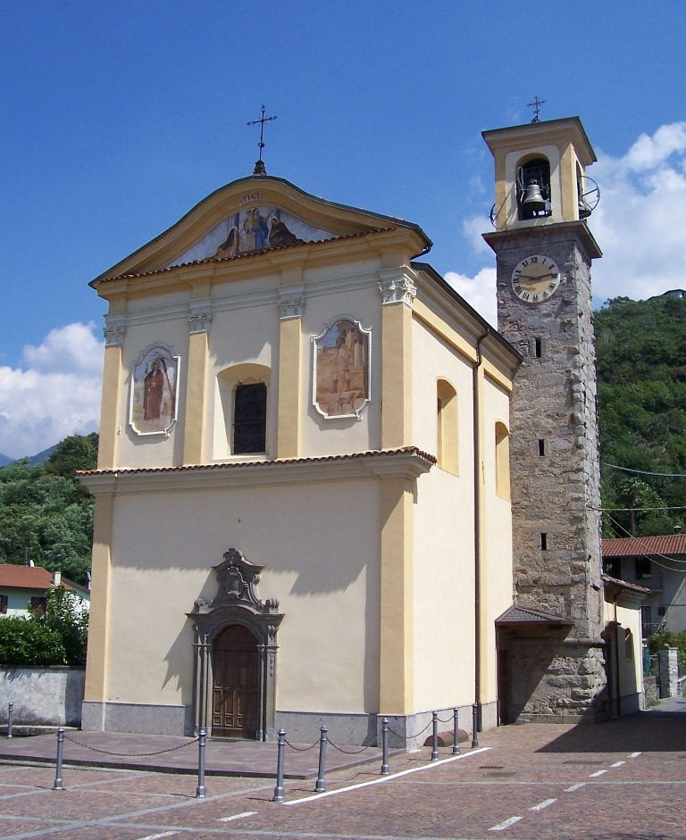 Church of the Patrocinio of Mary. Beata, Pian Camuno, Val Camonica